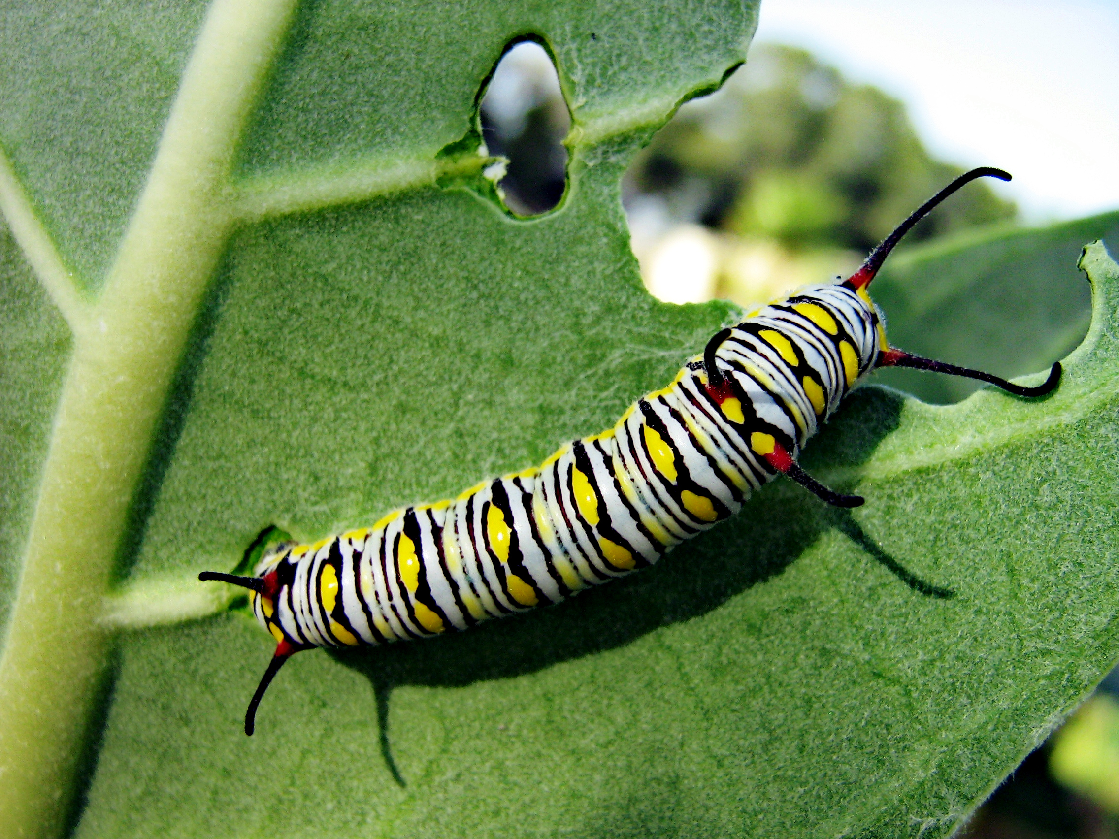 Danaus chrysippus Caterpillar Plain Tiger. Libya.